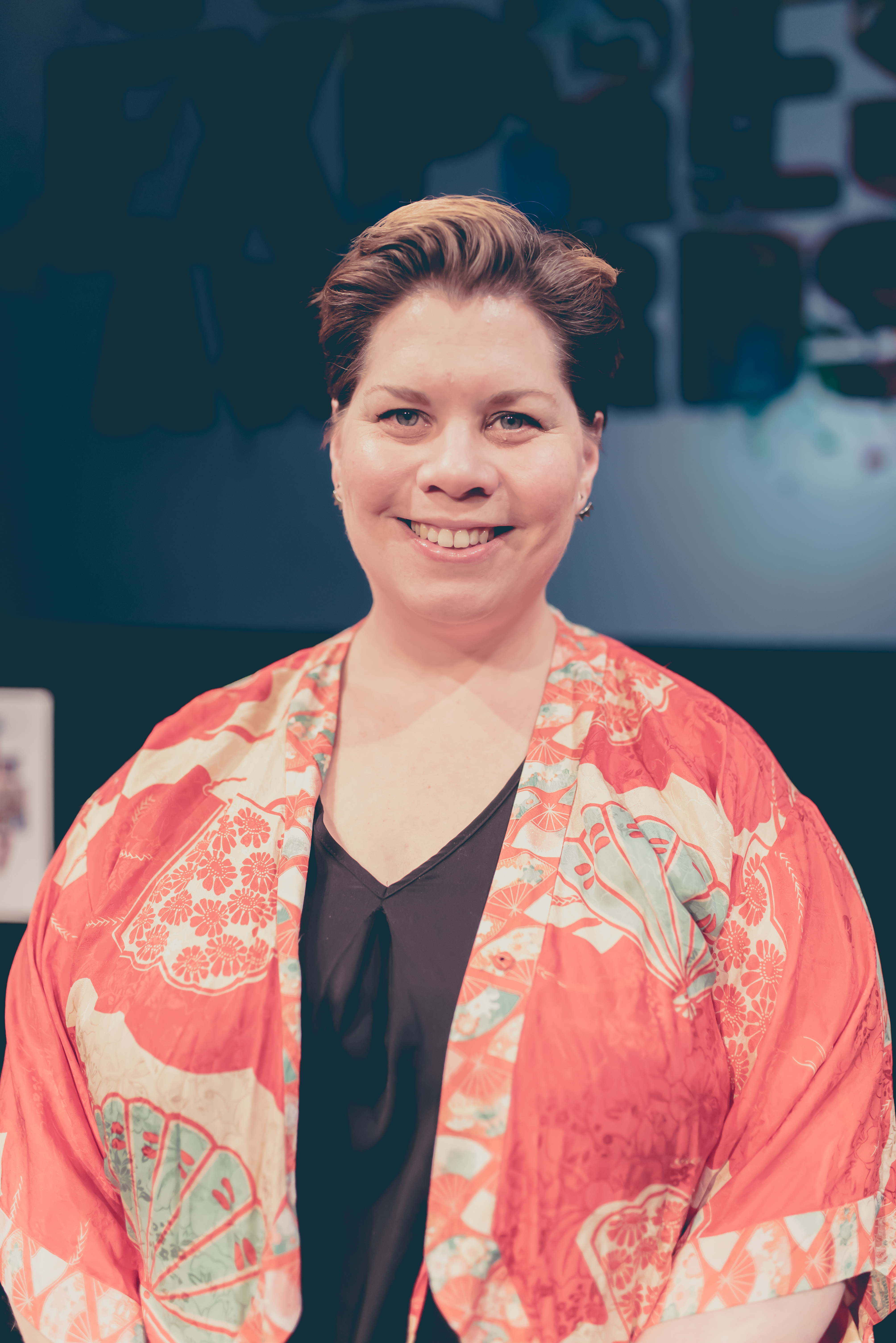 Comedian and actor Katy Brand hosts the 2017 Freedom of Expression Awards (Photo: Elina Kansikas for Index on Censorship)